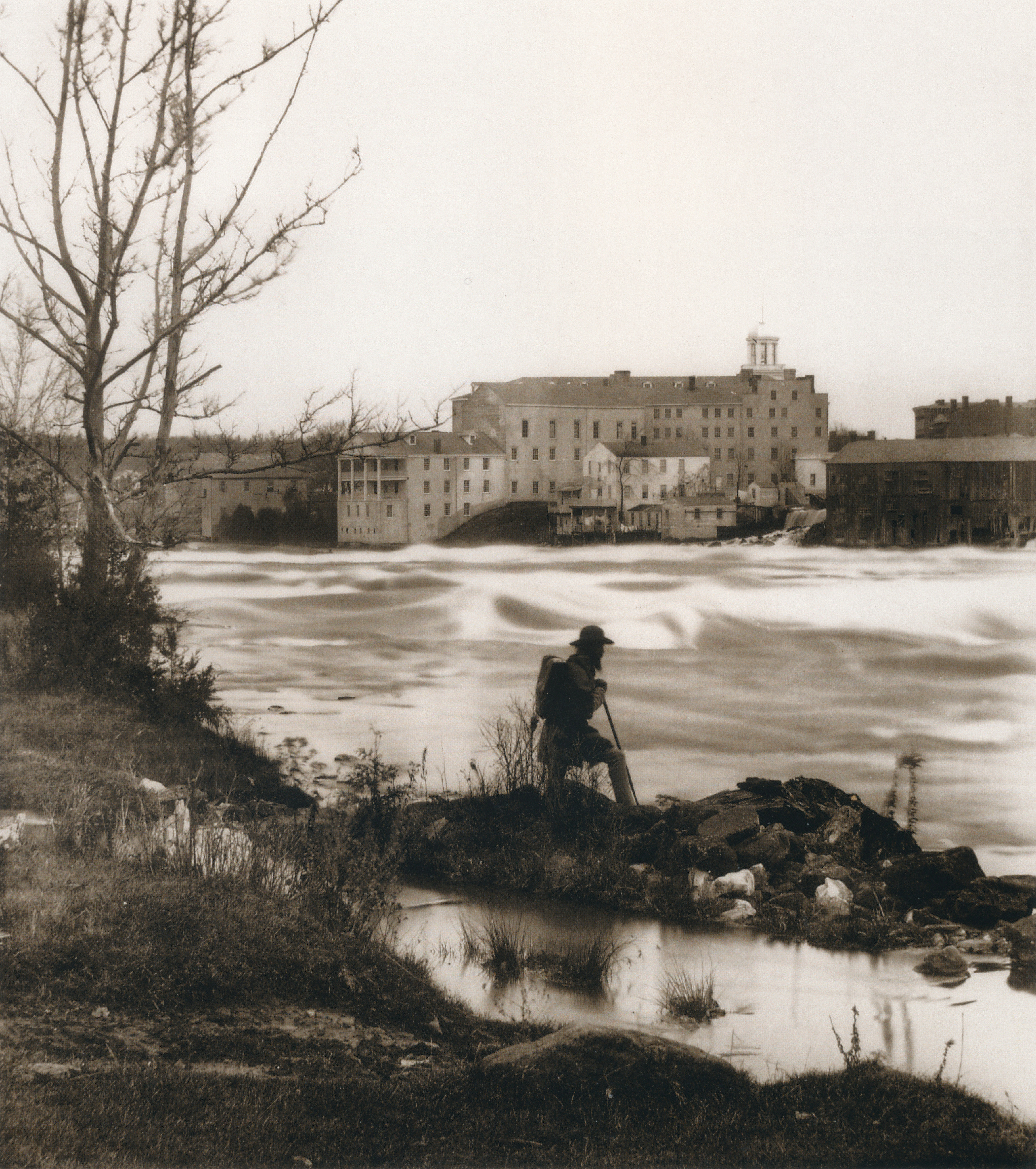 Niagara Falls Village, including the Cataract House, and the rapids above the American or Rainbow Falls, seen from Goat Island, Niagara.